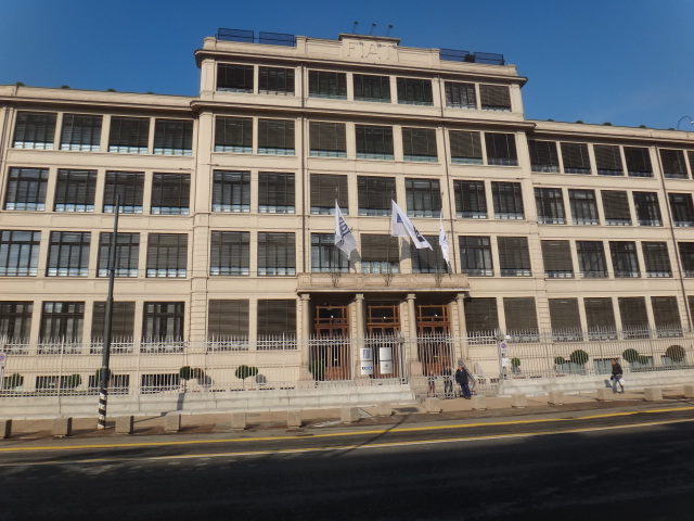 Front of the Lingotto Building - Fiat: Torino, Italy.